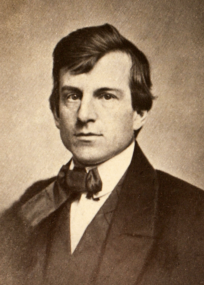 Alfred Stedman Hart, 1858 Harvard graduation photo